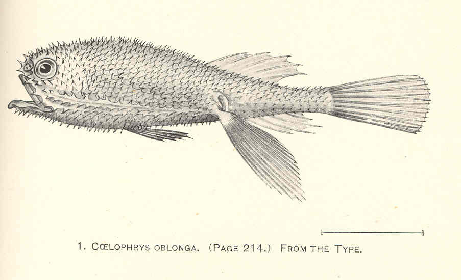 Coelophrys oblonga. From the type Subject: Coelophrys Tag: Fish